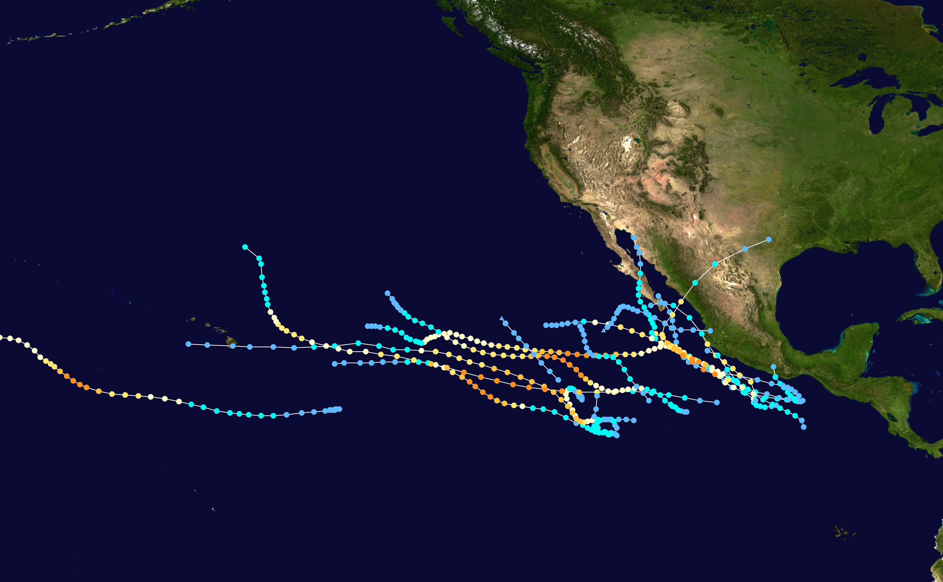 This map shows the tracks of all tropical cyclones in the 1993 Pacific hurricane season. The points show the location of each storm at 6-hour intervals. The colour represents the storm's maximum sustained wind speeds as classified in the Saffir-Simpson Hurricane Scale (see below), and the shape of the data points represent the type of the storm. Saffir–Simpson scale Tropical depression≤38 mph≤62 km/h Category 3111–129 mph178–208 km/h Tropical storm39–73 mph63–118 km/h Category 4130–156 mph209–251 km/h Category 174–95 mph119–153 km/h Category 5≥157 mph≥252 km/h Category 296–110 mph154–177 km/h Unknown Storm typeTropical cycloneSubtropical cycloneExtratropical cyclone / Remnant low / Tropical disturbance